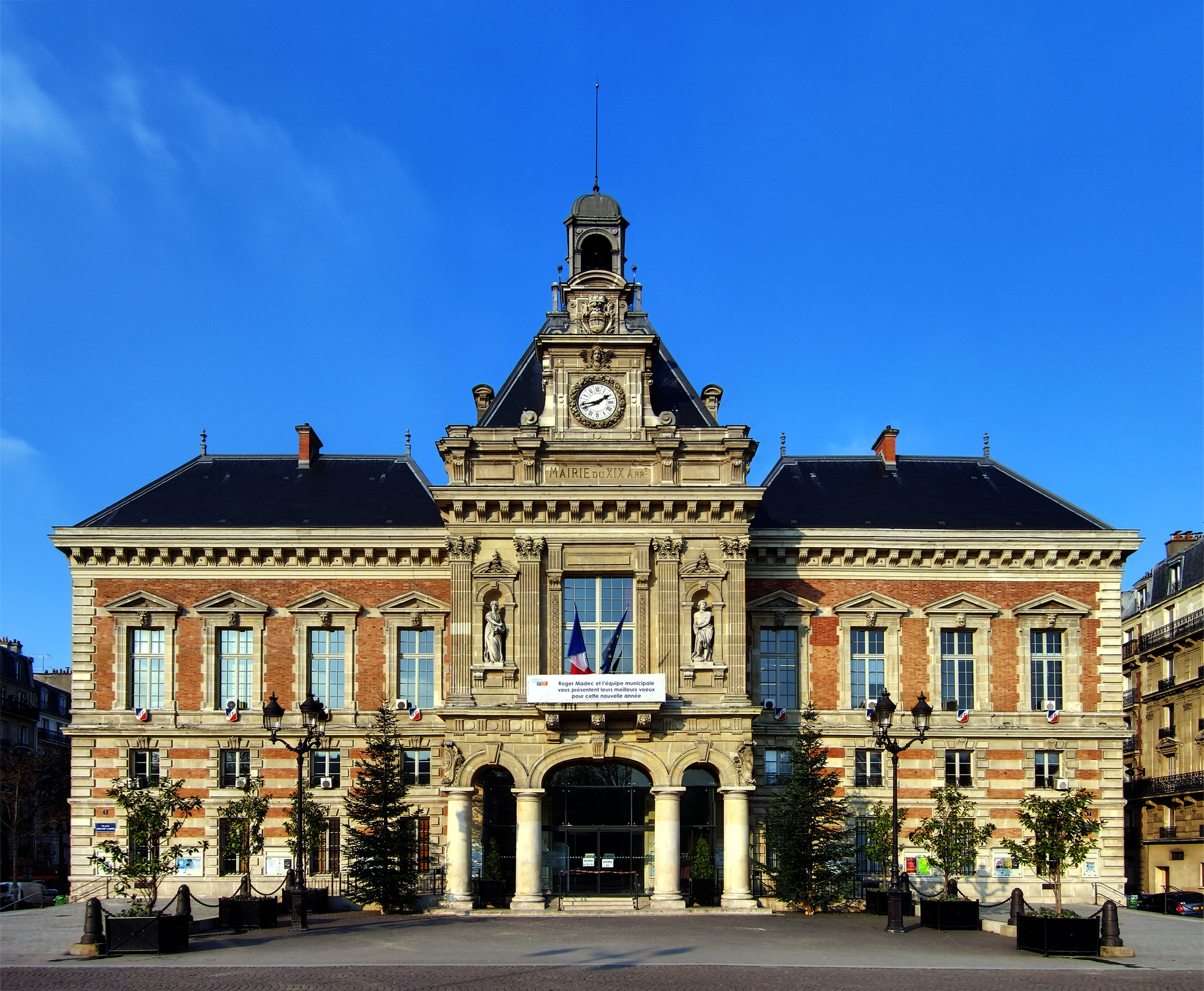 The town hall of Paris XIXe arrondissement, built between 1876 et 1878 by the architect Gabriel Davioud.